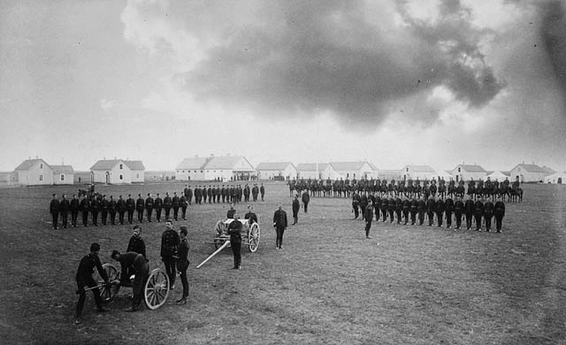 North-West Mounted Police Barracks, Regina 1 photograph ; image 114 x 194 mm: on mount 130 x 213 mm